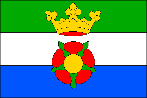 Municipal flag of Božanov village, Náchod District, Czech Republic.